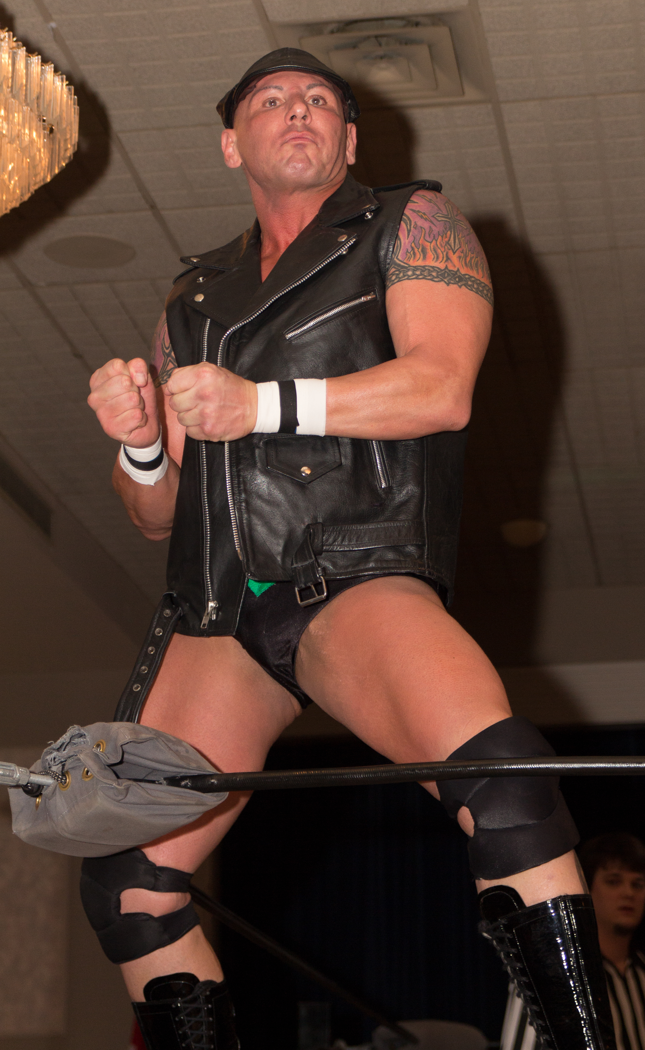 Vito Lo Grasso, aka Big Vito, making his entrance at the Hardcore Roadtrip's Born 2B Wired show in London, ON